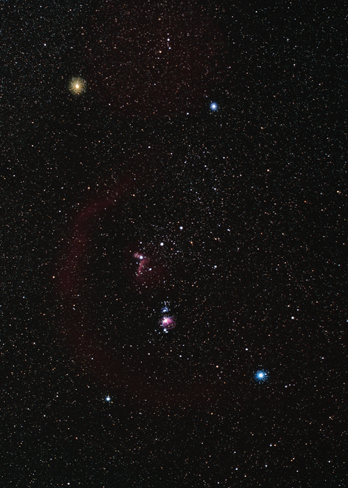 Photo of Orion, showing the familiar bright stars and nebulae. Taken on large format film. Image Credit: Digital Sky LLC